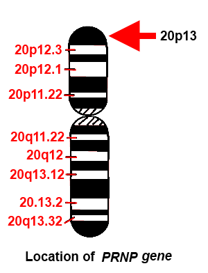 Location of the PRNP gene, that provides instructions for making a protein called the prion protein (PrP), in chromosome 20.